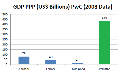 The largest economies of Pakistan.